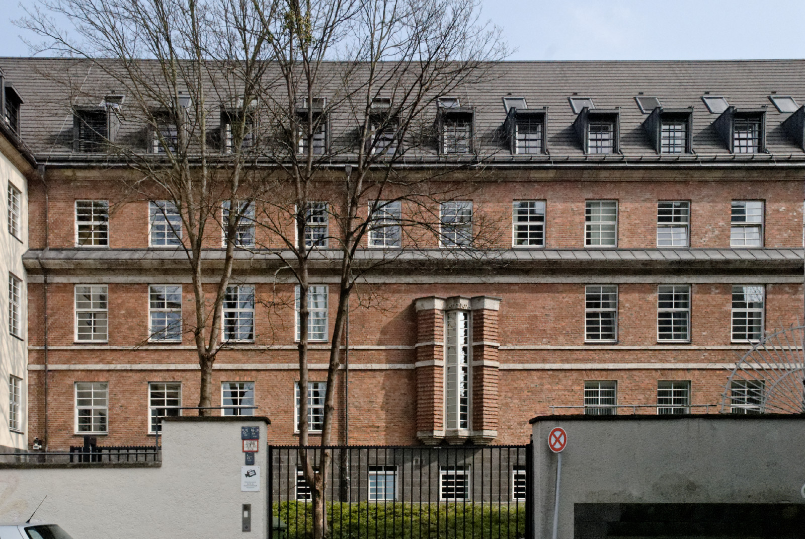 Phoenix-Haus in Düsseldorf-Altstadt, Germany